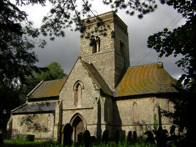 St.Martin's church, Waithe. Lincs. Anglo-saxon central tower with James Fowler Victorian Nave & Chancel (1861). A sad, redundant church.